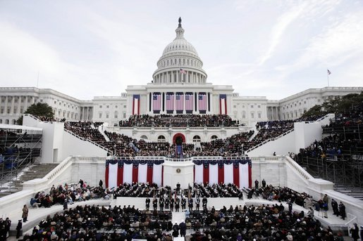 Caption: A sea of onlookers witness the second swearing-in ceremony of President George W. Bush at the U.S. Capitol Jan. 20, 2005.